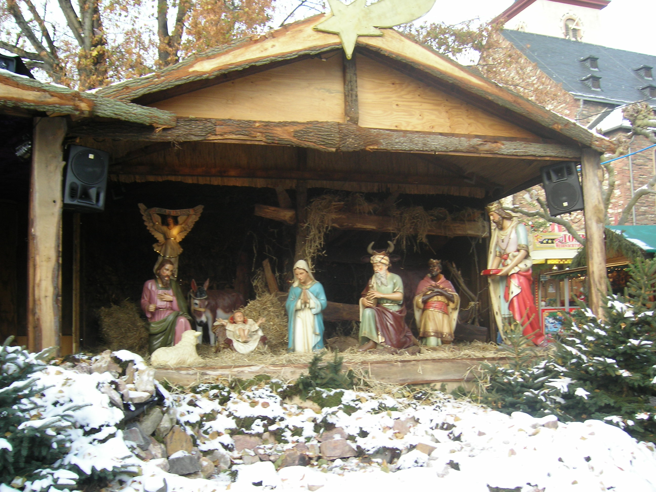 Nativity scene at a Christmas market in Rüdesheim am Rhein (Germany)